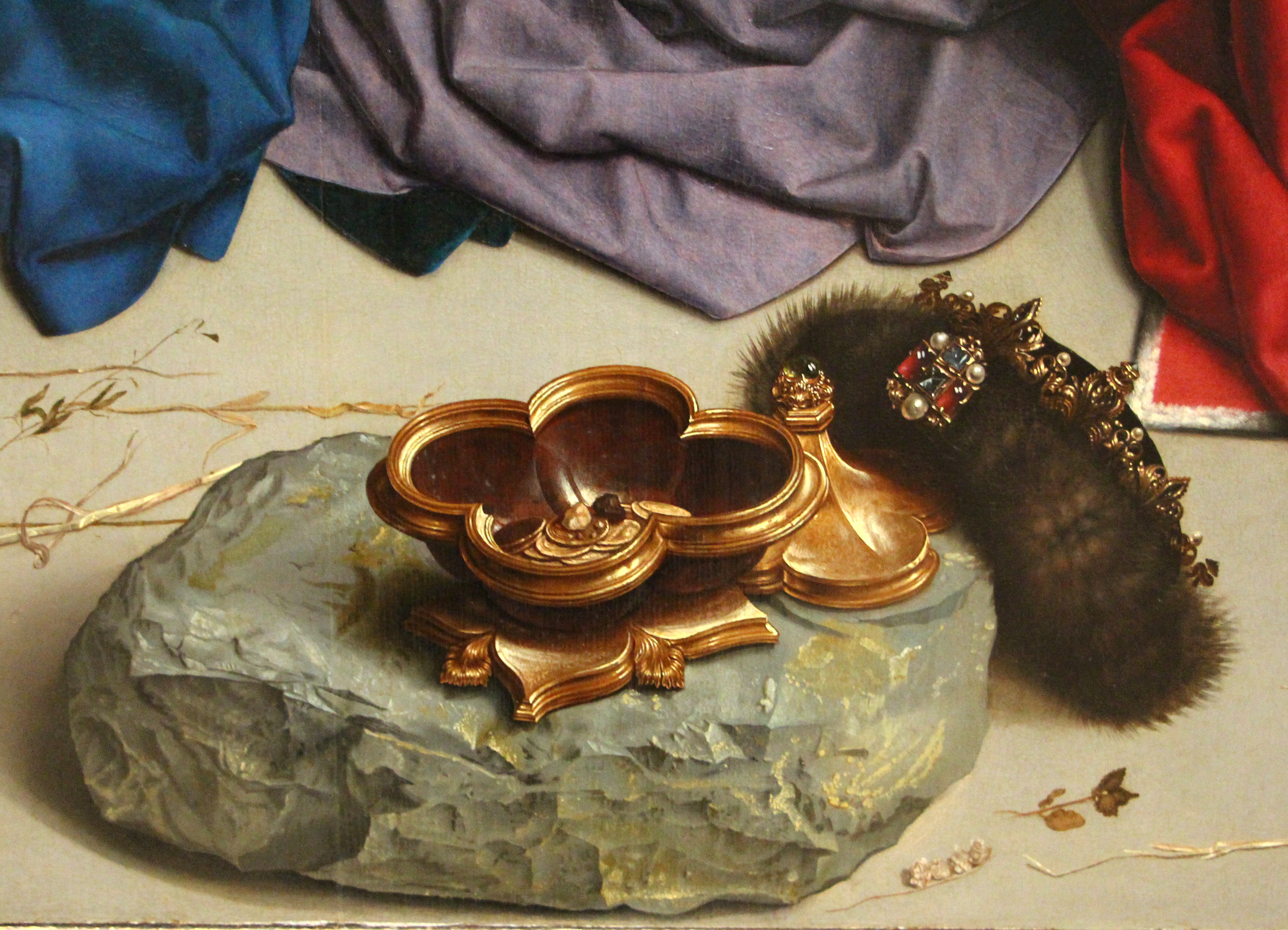 Monforte Altarpiece